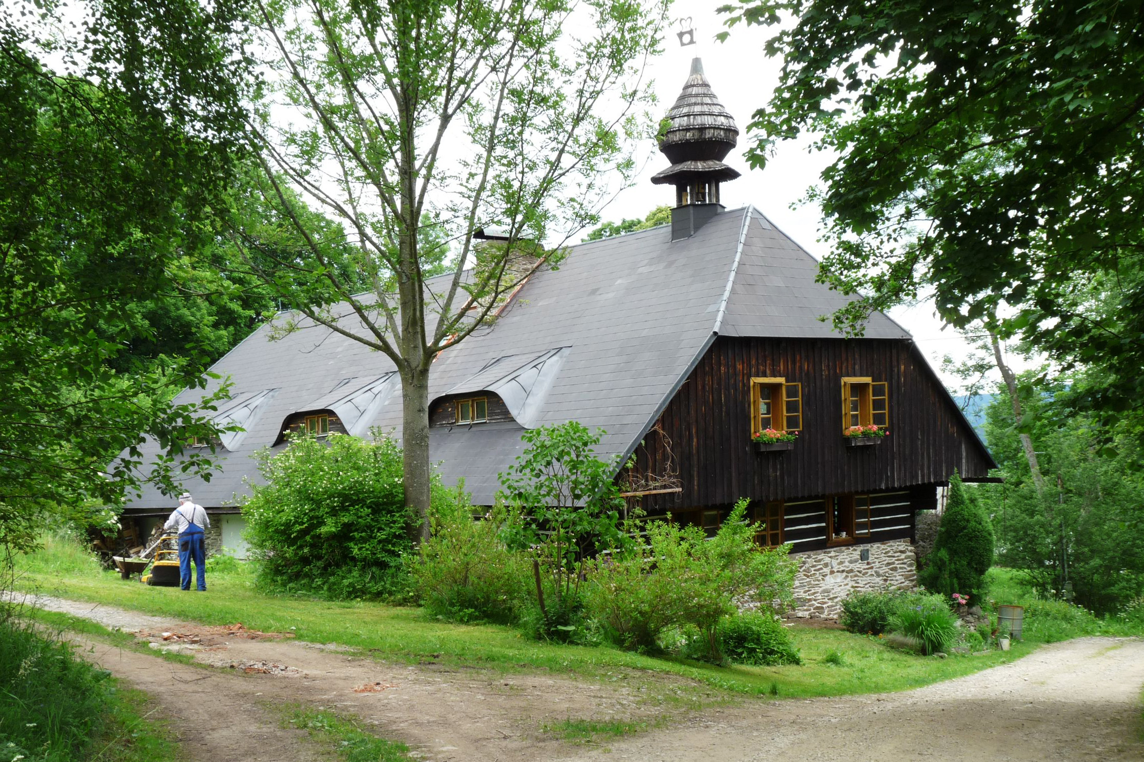 House No 27 in the village of Velký Radkov, part of the town of Rejštejn, Klatovy District, Plzeň Region, Czech Republic